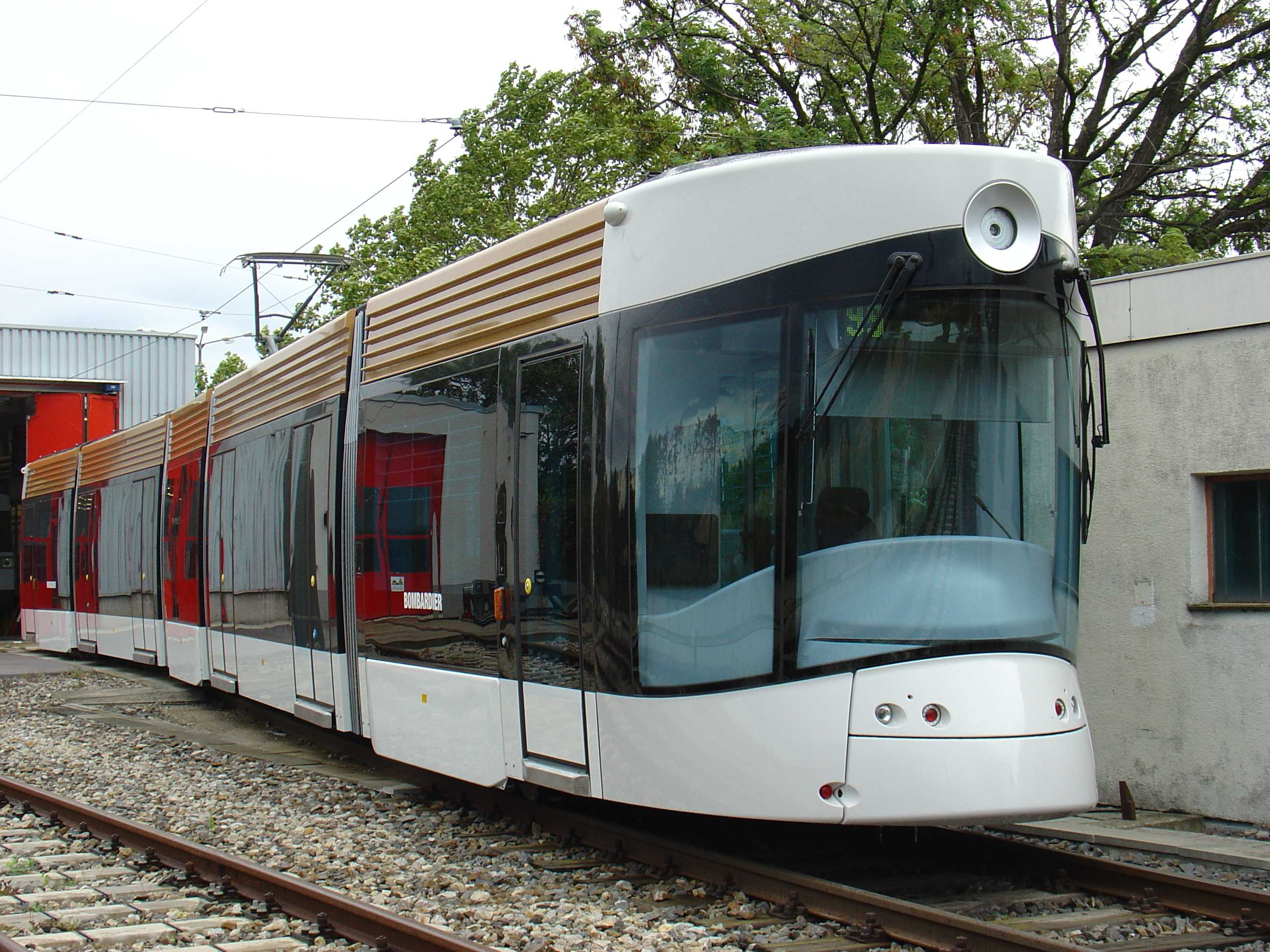 Tram for Marseille (France) in Vienna at commissioning. Wiener Linien test track.